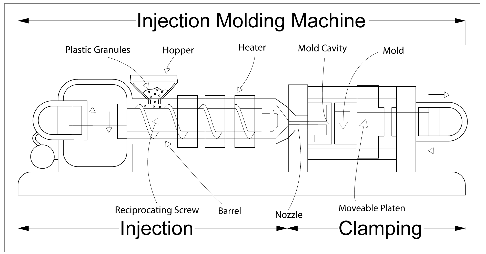 Injection Molding Machine how to work injection moulding